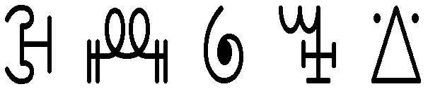 The syllables, "ꘂꔞꕄꔦꕖ" (yɛ-ke-ŋgi-hi-mgba) written in the Vai syllabary. 100% my own graphical creation using a font originally created by Jason Glavy. This showcases the Vai script. I uploaded a JPG version but decided a PNG version would be better.